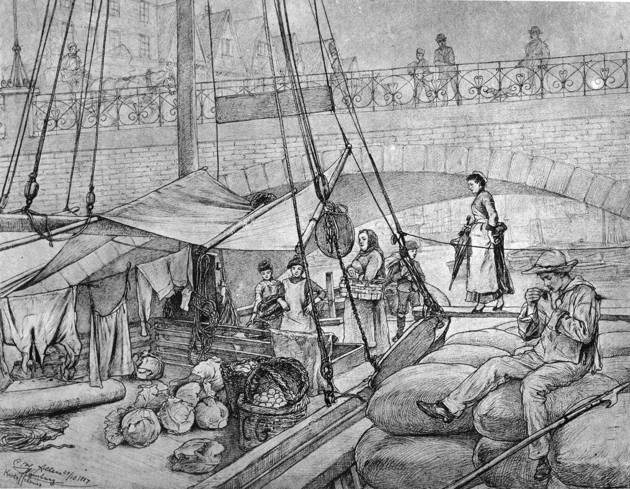 Ship in Hamburg.